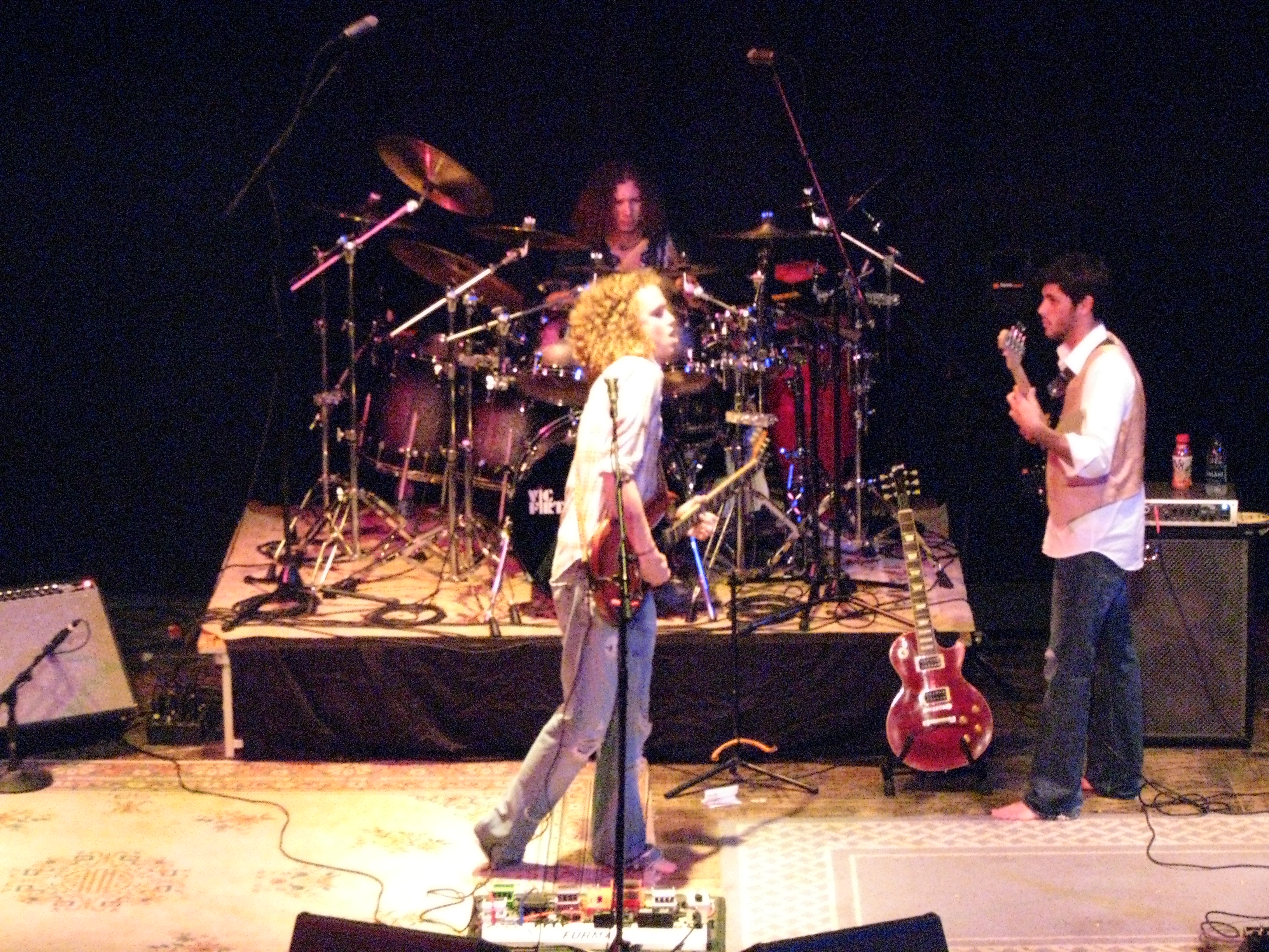 September Hase Trio at Cox Capital Theatre August 2008